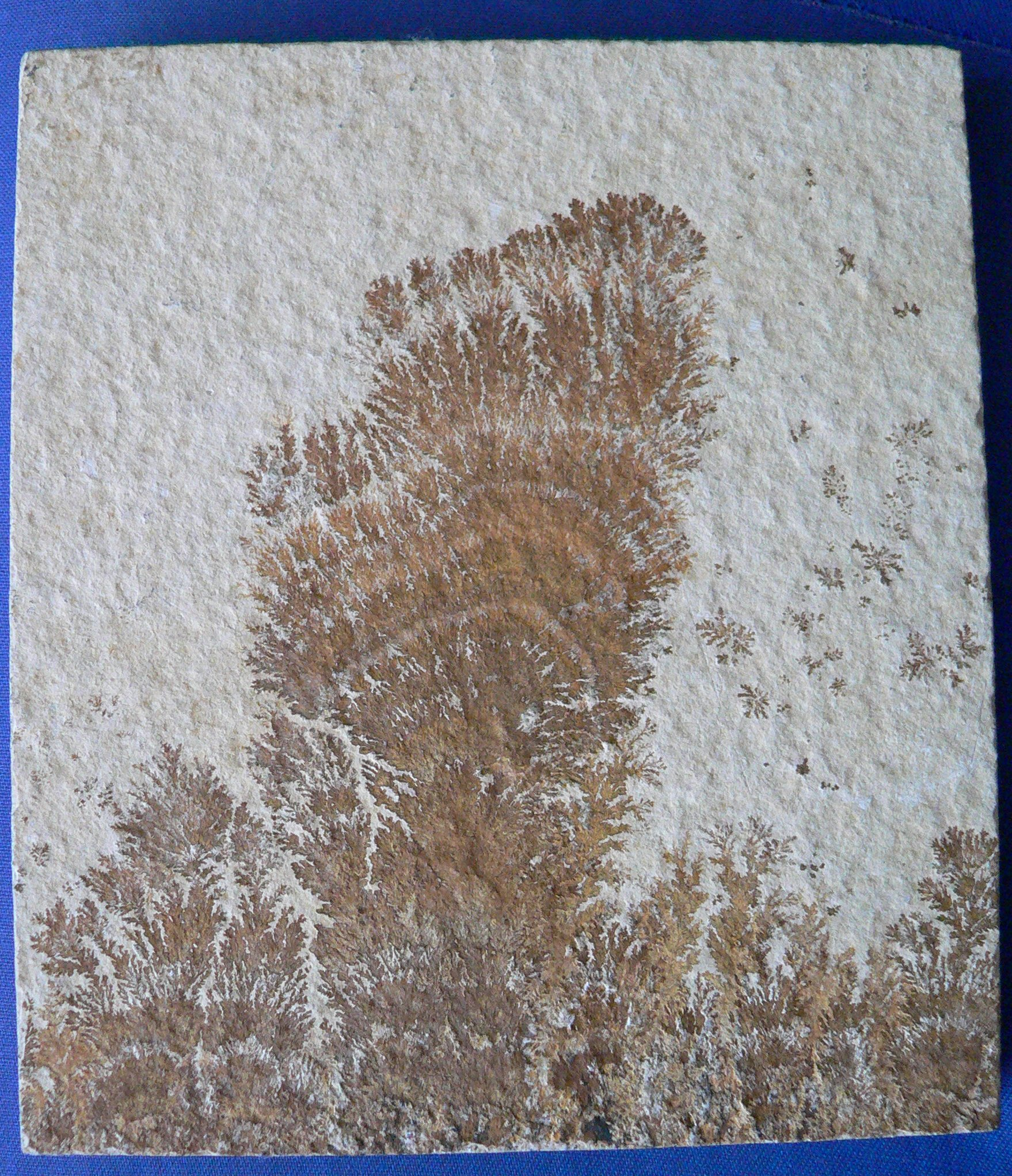 Example of a pseudofossil: this dendrite looks much like a plant